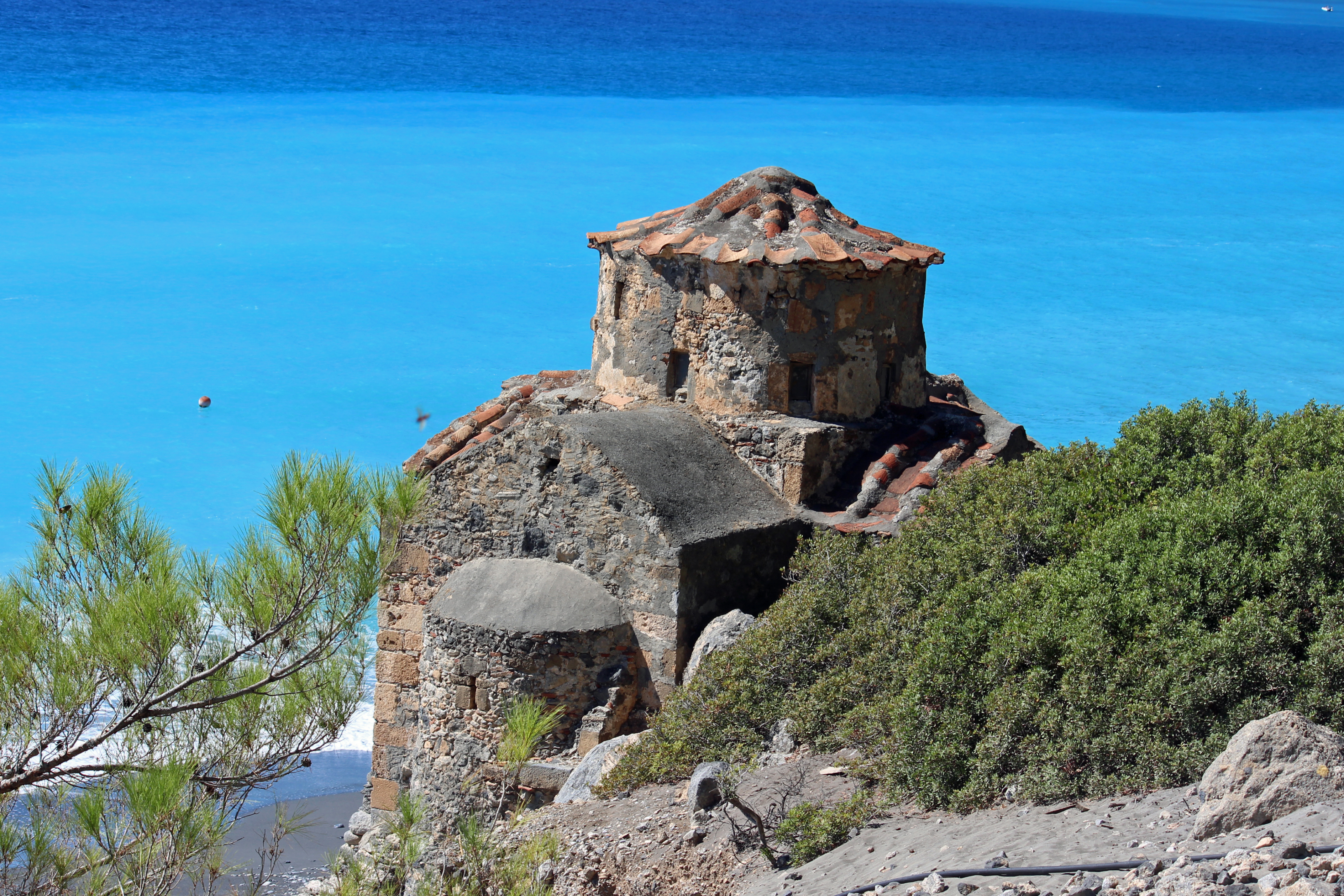 Church „Agios Pavlos“, near Agia Roumeli, a village in the municipalitie Sfakia, in the southwestern part of the island of Crete, Greece